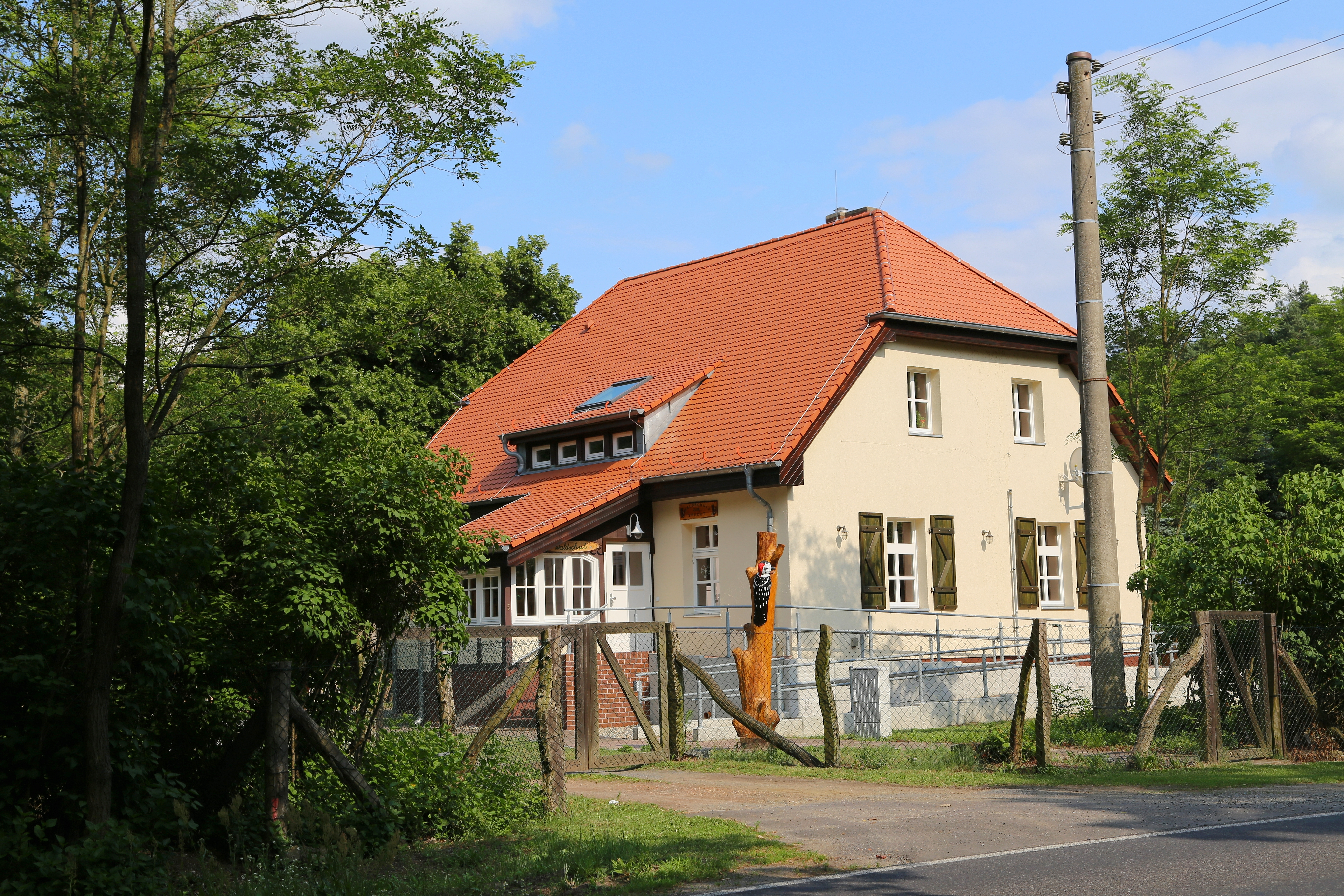 Forester's lodge Briesensee in Börnichen, a hamlet of Lübben, Landkreis Dahme-Spreewald, Brandenburg, Germany.